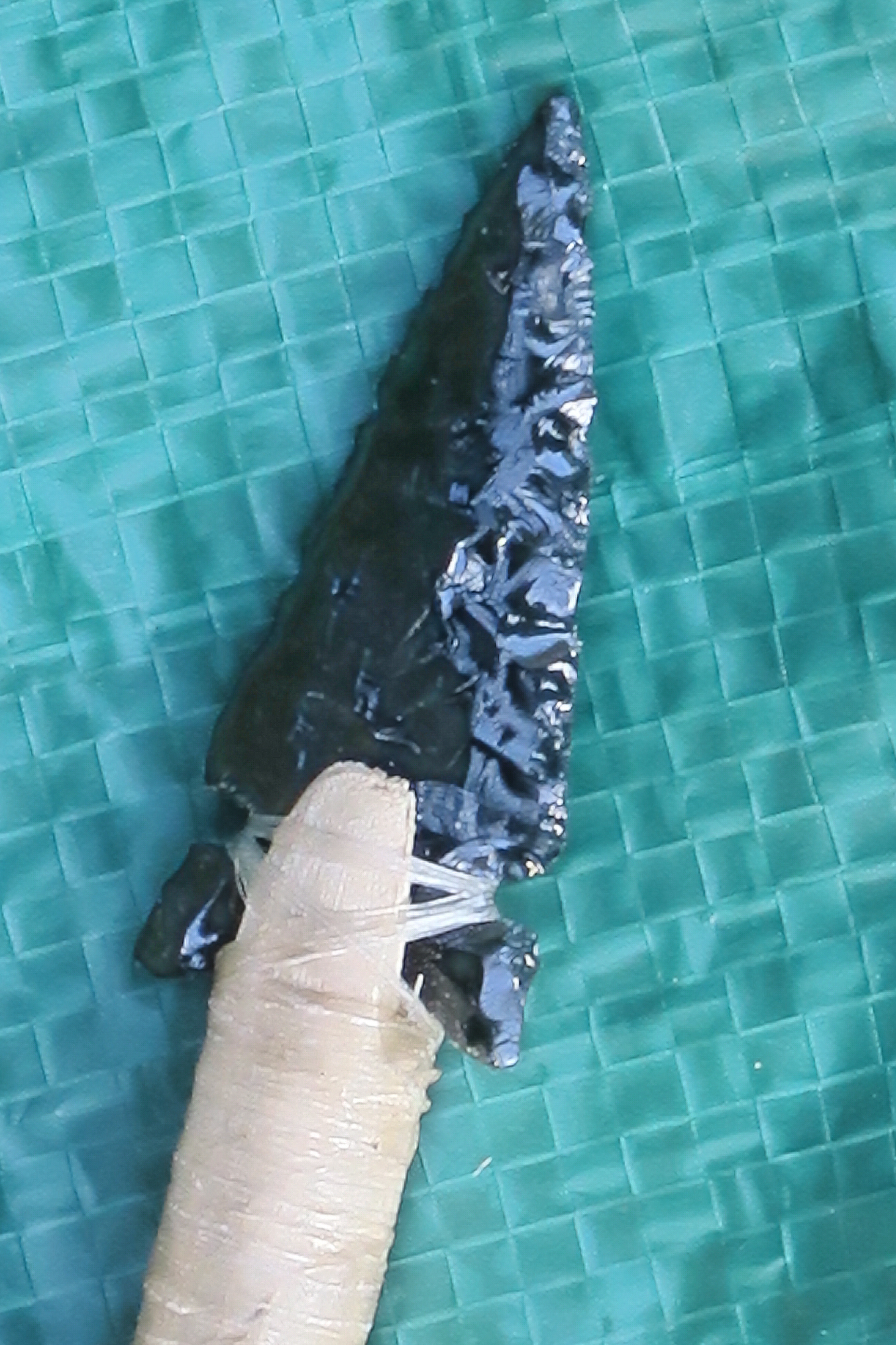 J20161101-0060—Obsidian arrowhead—RPBG